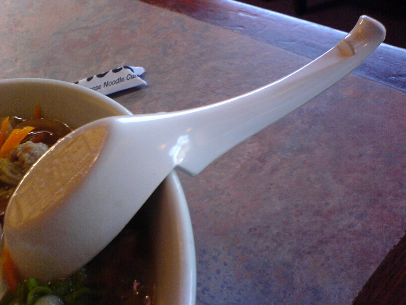 This way your spoon won't disappear into the broth!Awesome ramen spoon